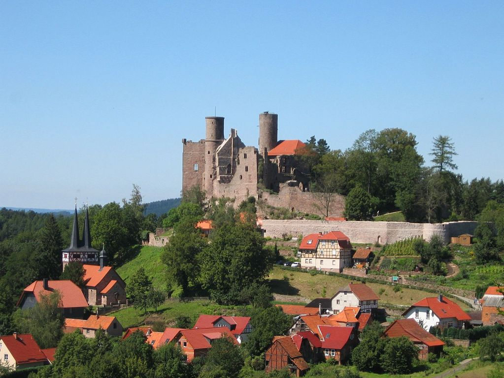 Germany / Thueringia / Castle Hanstein